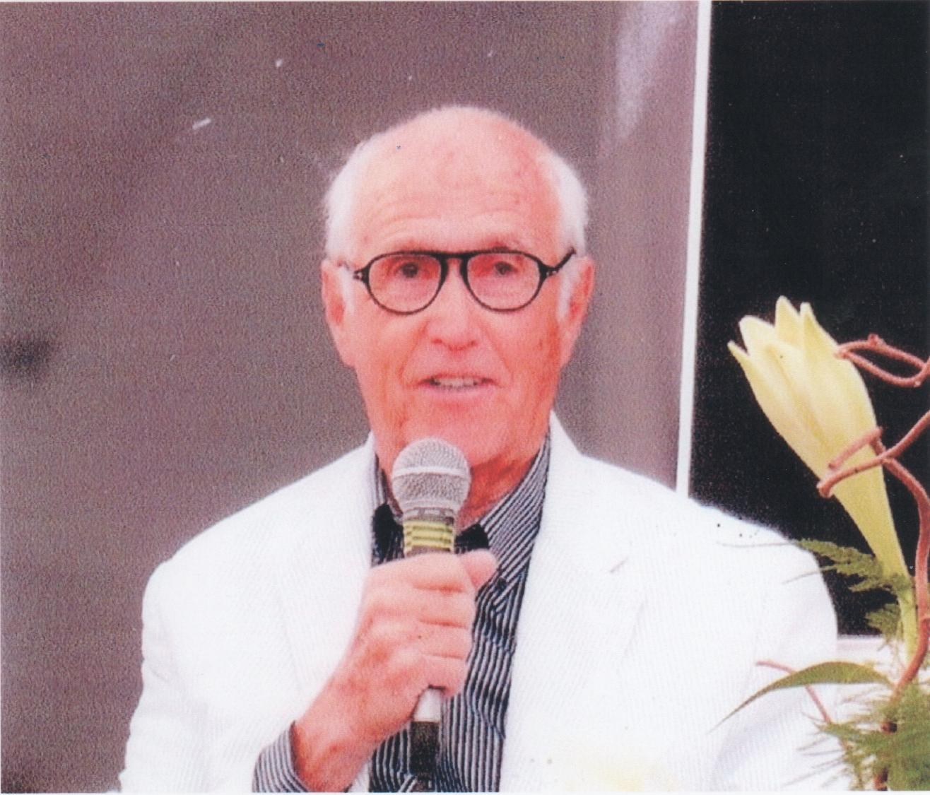 Claude Fayard invité des Grosses Têtes de Philippe Bouvard